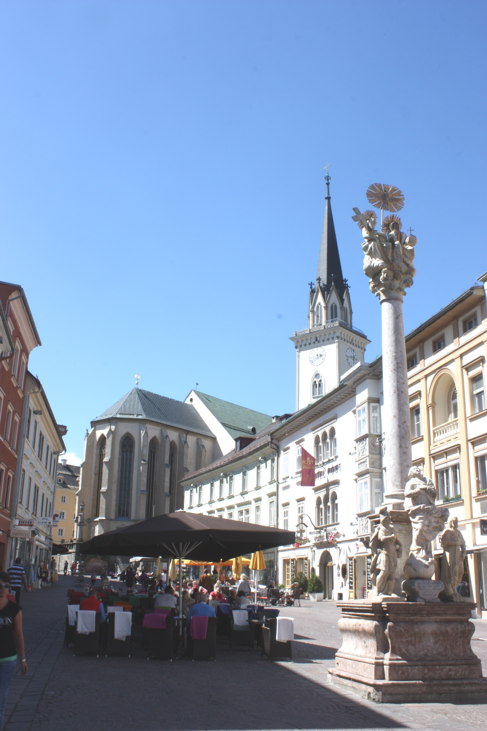 Villach, the plague column on the Hauptplatz